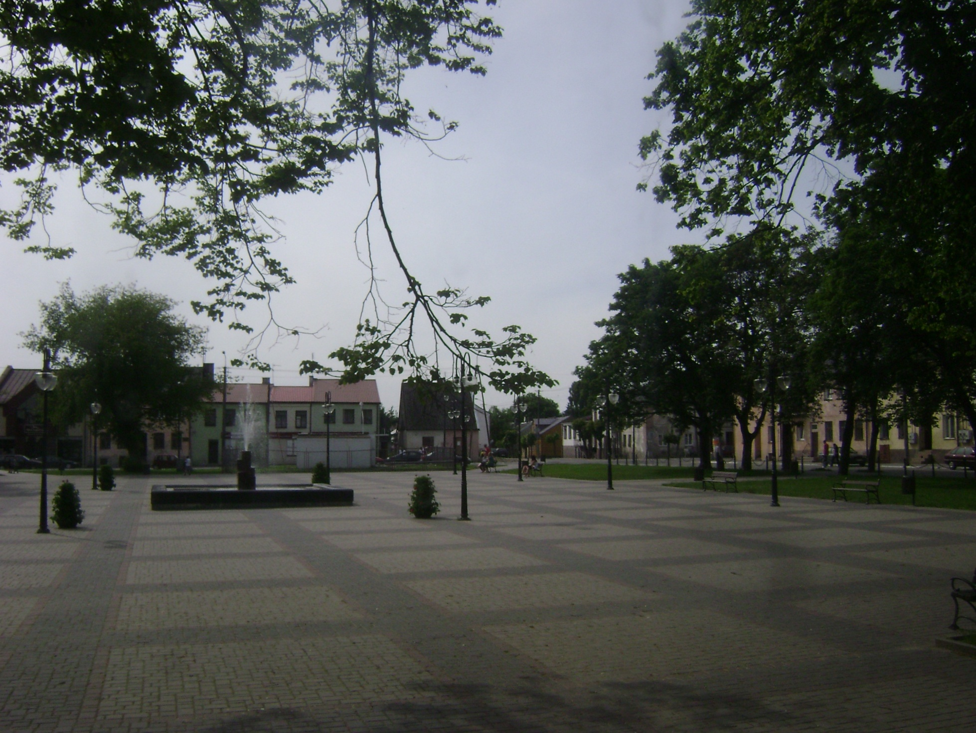 Poland. Masovian Voivodeship. Drobin